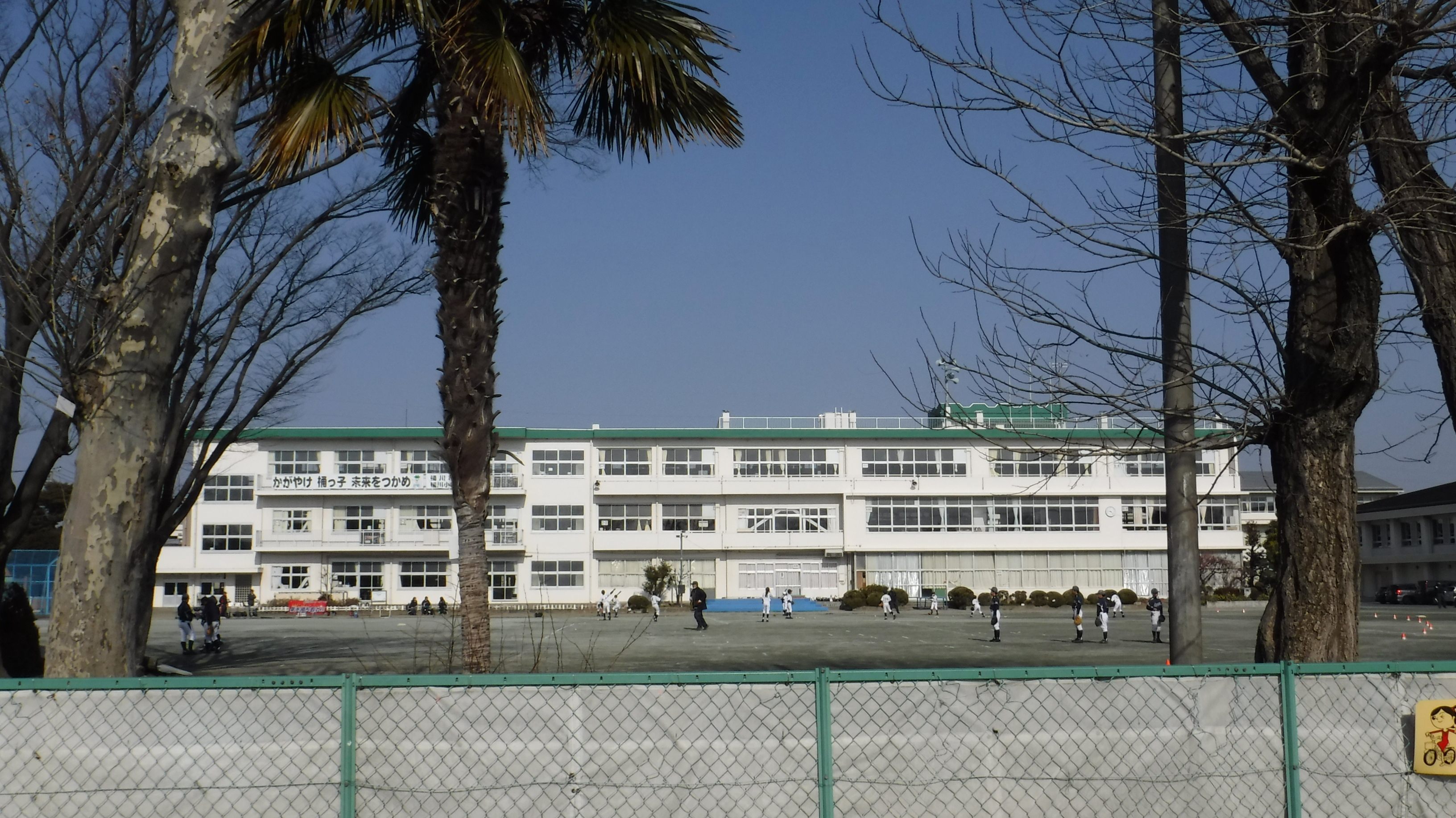 Okegawa Municipal Okegawa Elementary School viewed from the south, located in Okegawa, Saitama, Japan.